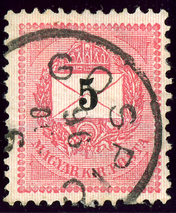 Kingdom of Hungary 5 kr stamp cancelled at Gospić in 1896 (Military Border, Croatia)